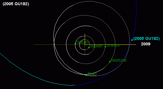 The orbit of 2005 QU182 compared to Pluto and Neptune. This dwarf planet candidate takes over 1,200 years to orbit the Sun. Of the dwarf planets and known dwarf planet candidates, only Sedna is known to have a longer orbit around the Sun.